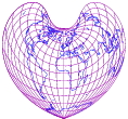 world map in Bonne projection with 15-degree grids, blue continents and purple grauticle on white background